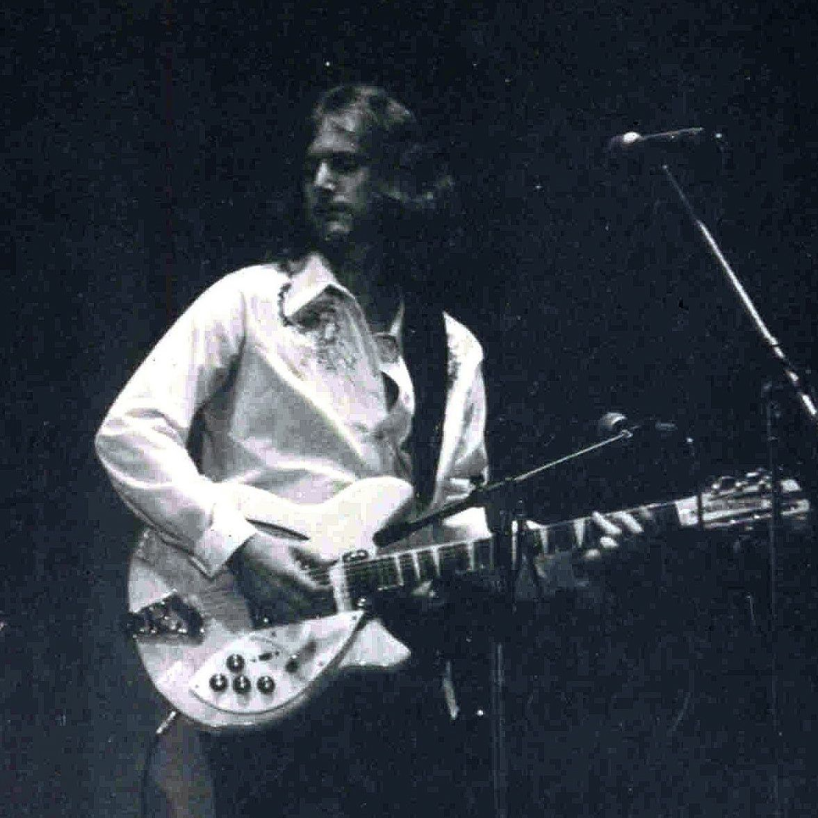 cropped version of musician Roger McGuinn playing electric guitar